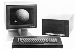 The Terak 8510/a is a desktop workstation running the UCSD p-System from the late 1970s to the early 1980s.